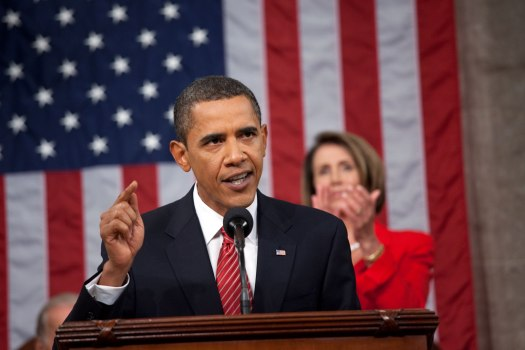 President Barack Obama discusses his plan for health care reform in a speech delivered to a joint session of the 111th United States Congress on September 9, 2009.